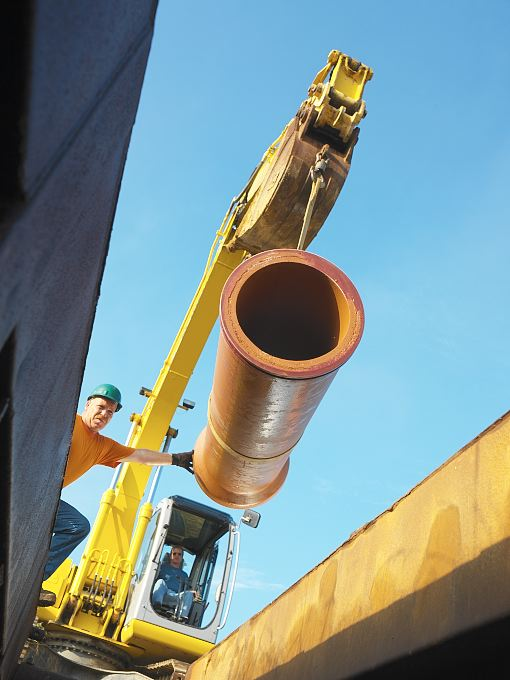 Belll & spigot VCP being installed in the trench in Ohio. The pipe was manufactured in Logan, Ohio